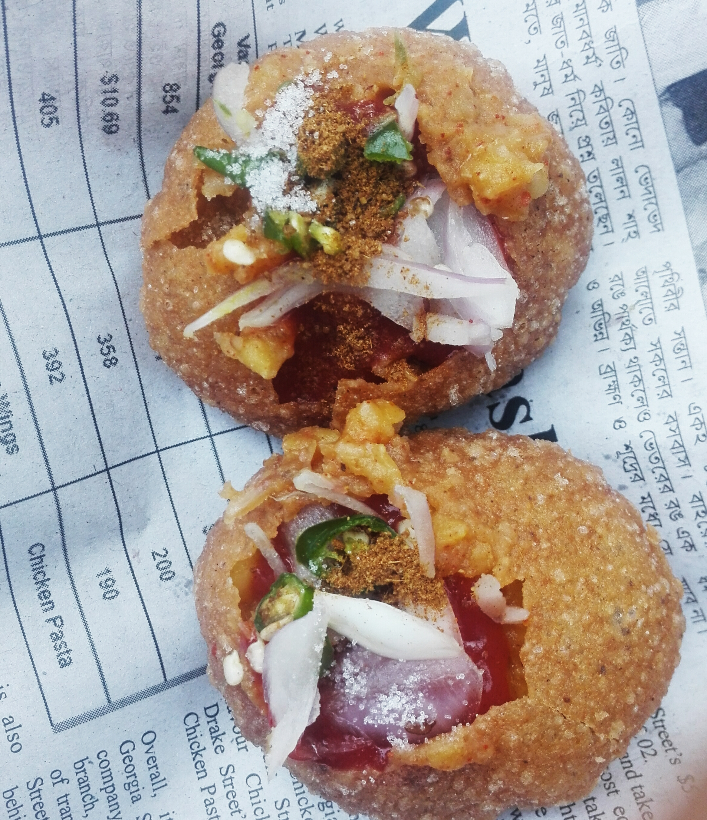 Bhelpuri is a popular street food in Bangladesh and india.